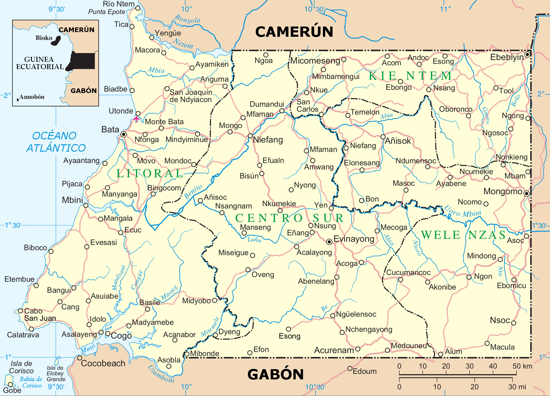 Map of continental part of Equatorial Guinea, in Spanish